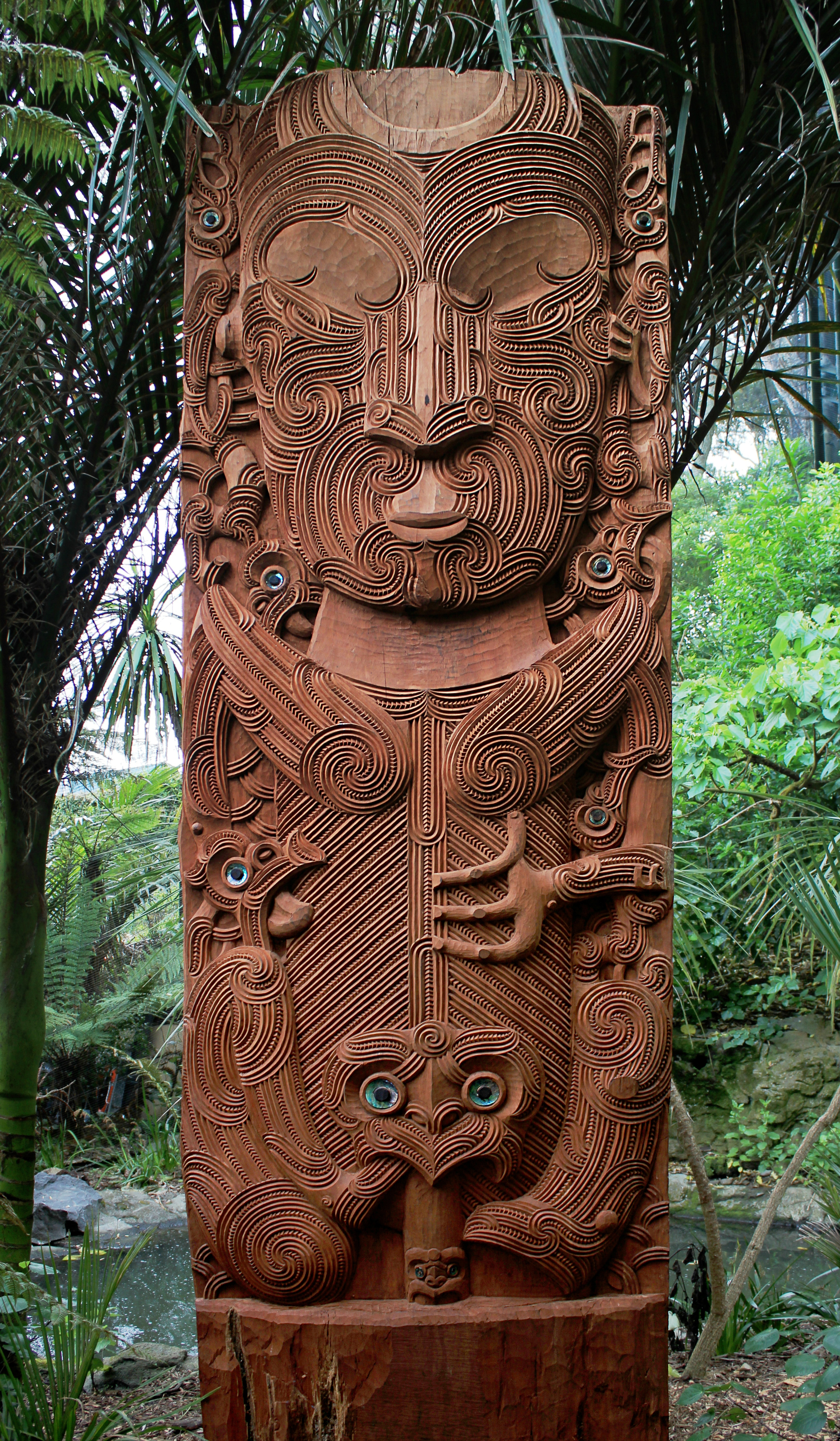 A carving of Tāne nui a Rangi, a Māori god, sited at the entrance to the forest aviary at Auckland Zoo. For more information, see: Waipoua inspires carvers, Dargaville News, 5 October 2011.